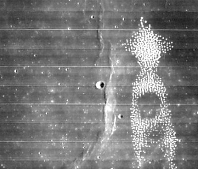 LOIV-085-H3 shows Very (central), and Dorsa Smirnov running north-to-south.